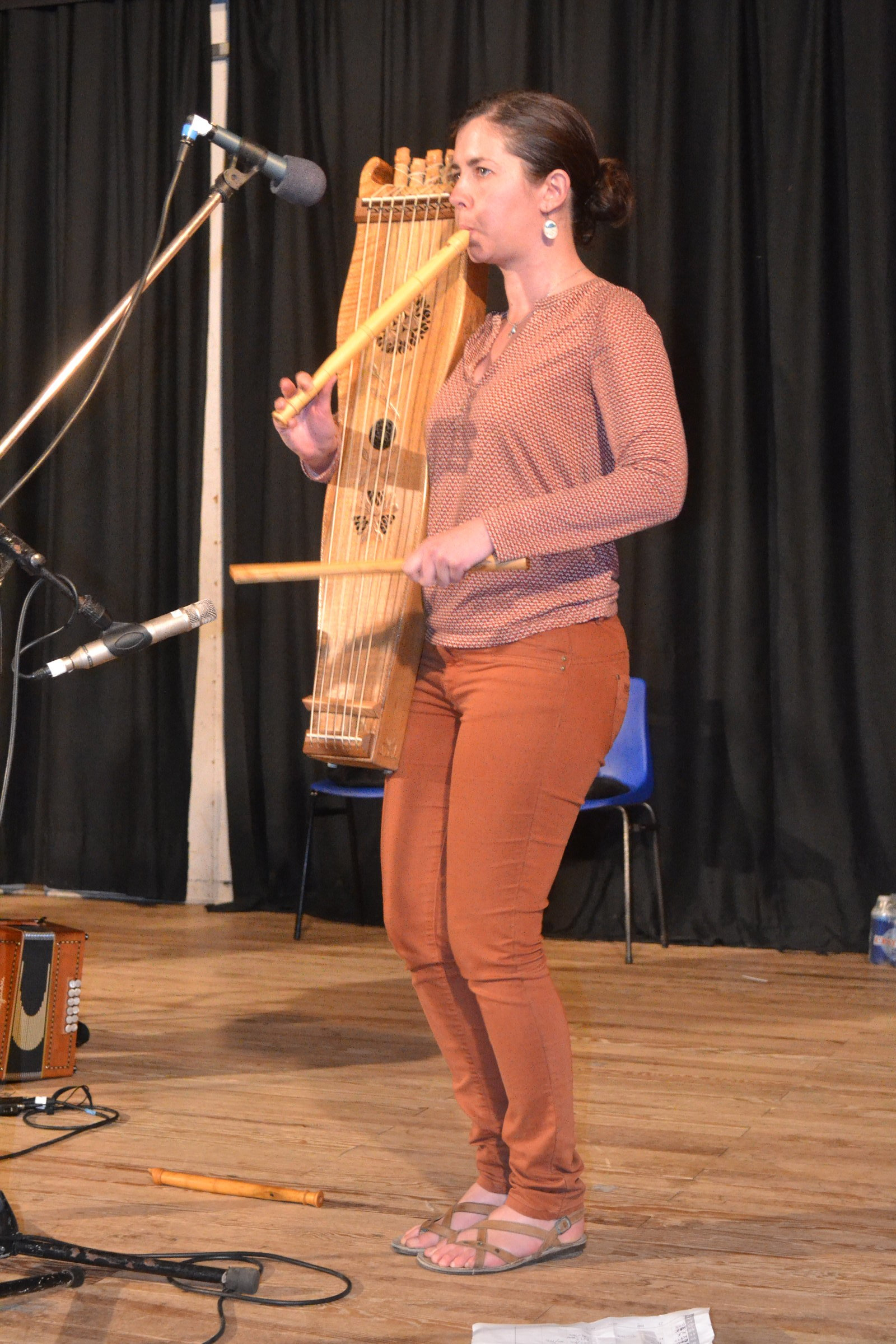 Cécile Nunez d'Espartenhas during Campestral 2016 in Le Passage d'Agen.